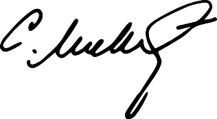 Signature of Slobodan Milošević